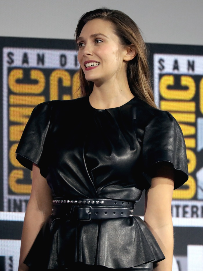 Elizabeth Olsen speaking at the 2019 San Diego Comic Con International, for "Doctor Strange in the Multiverse of Madness", at the San Diego Convention Center in San Diego, California.